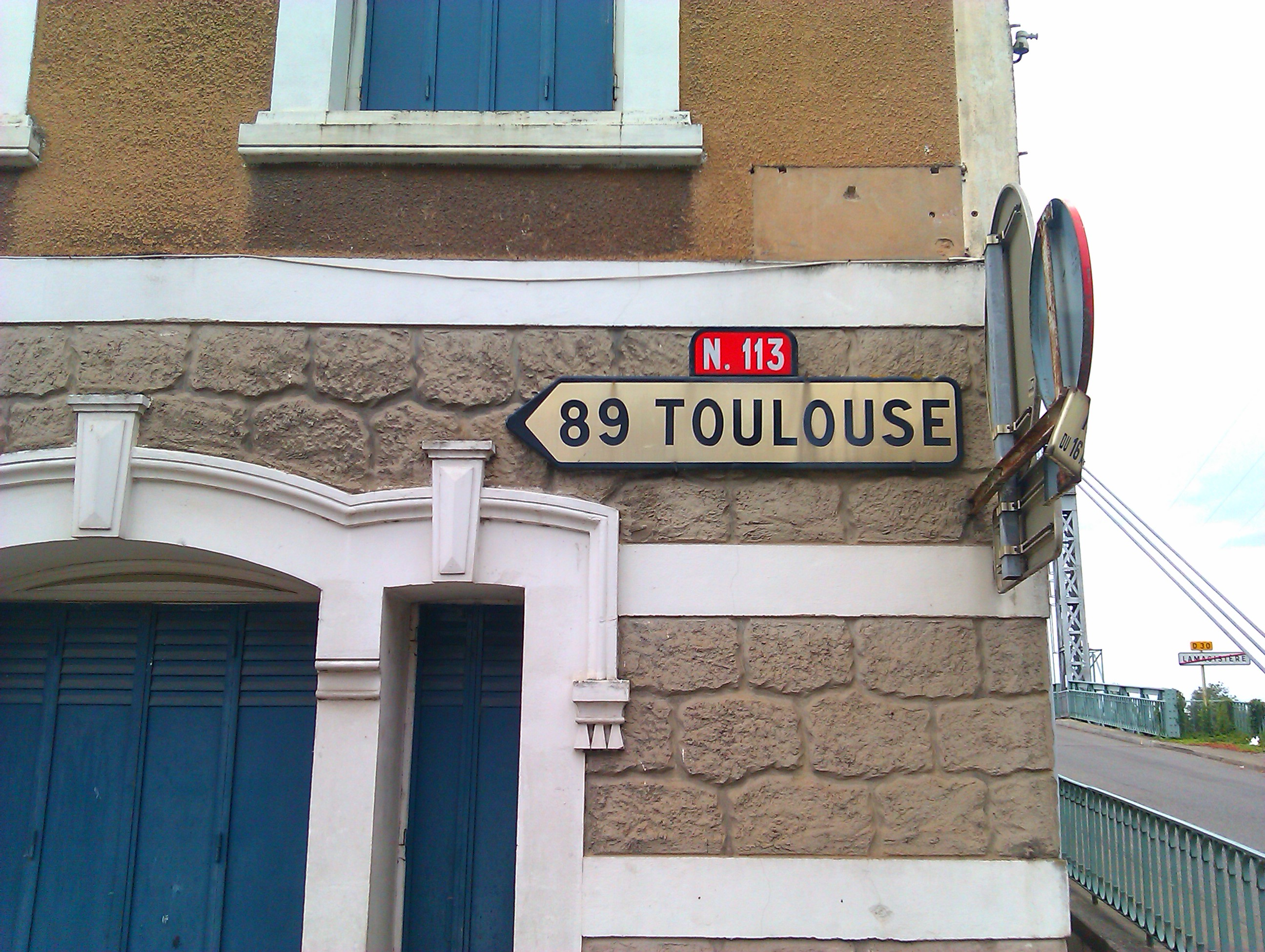 Photo of the sign for the N113 road in LaMagistere. This road has been downgraded and diverted around the town too now.